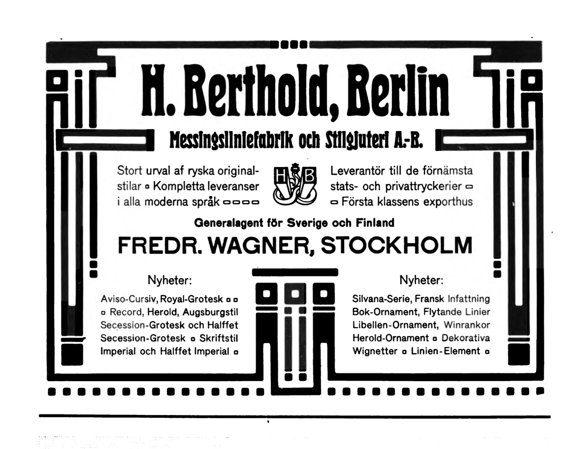 An advertisement for Berthold's Swedish agent in 1905.